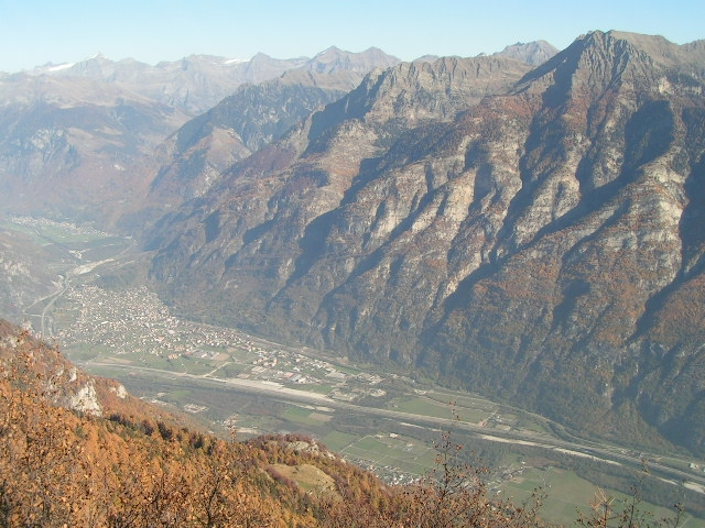 Aerial view of the village of Biasca, in Switzerland